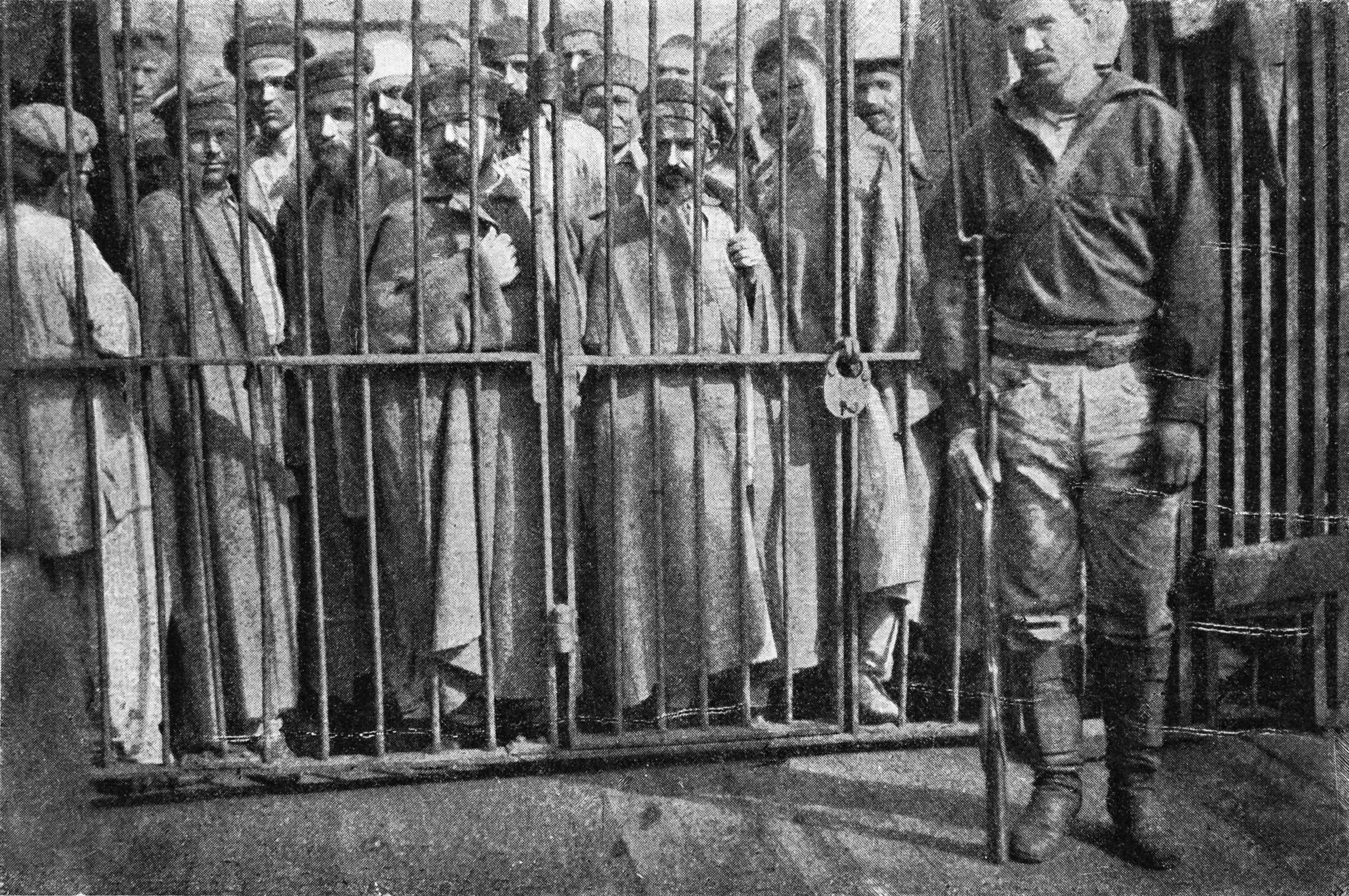 Prisoners on steamship of Voluntary fleet